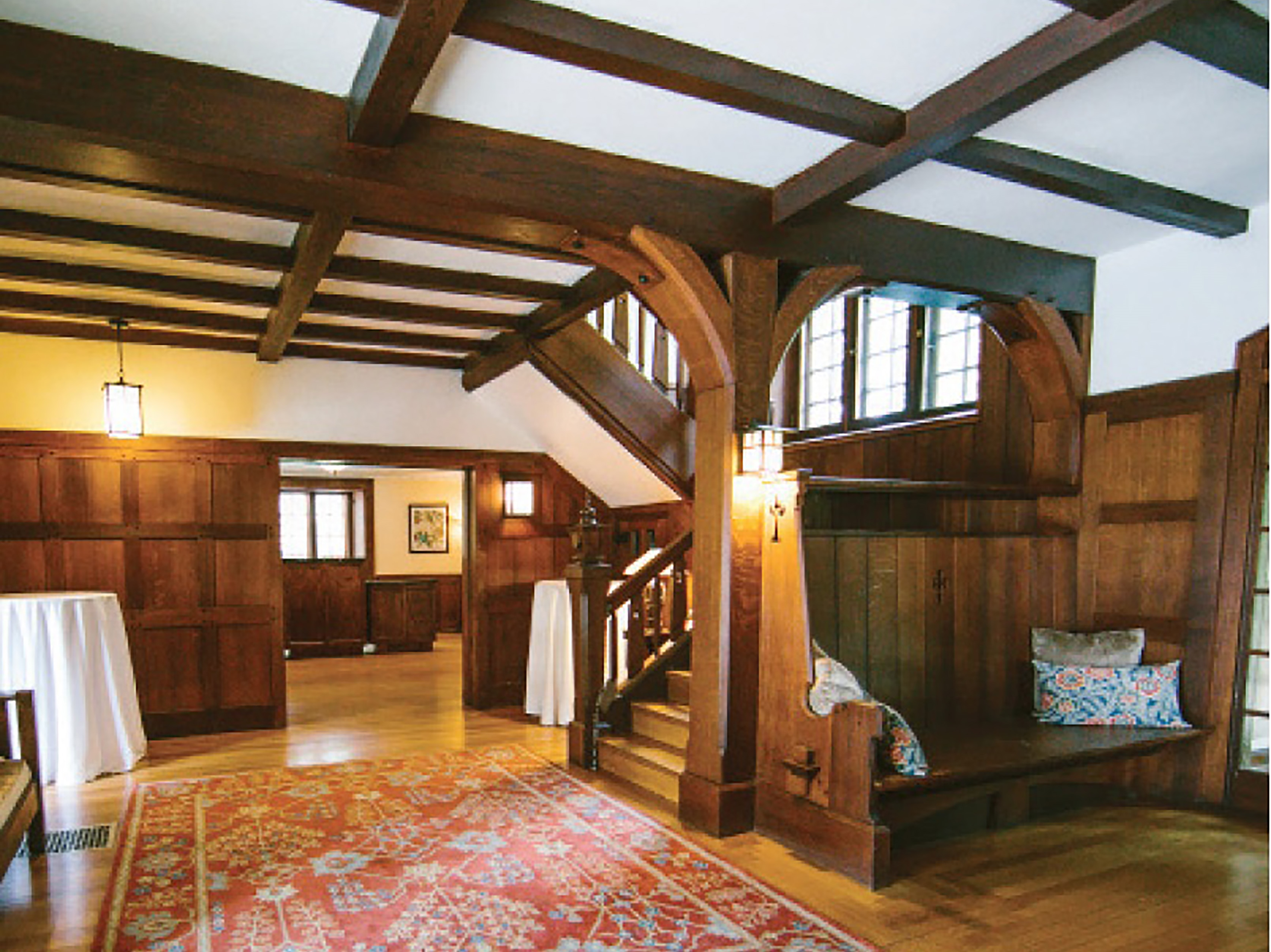 Willowdale Estate Parlor